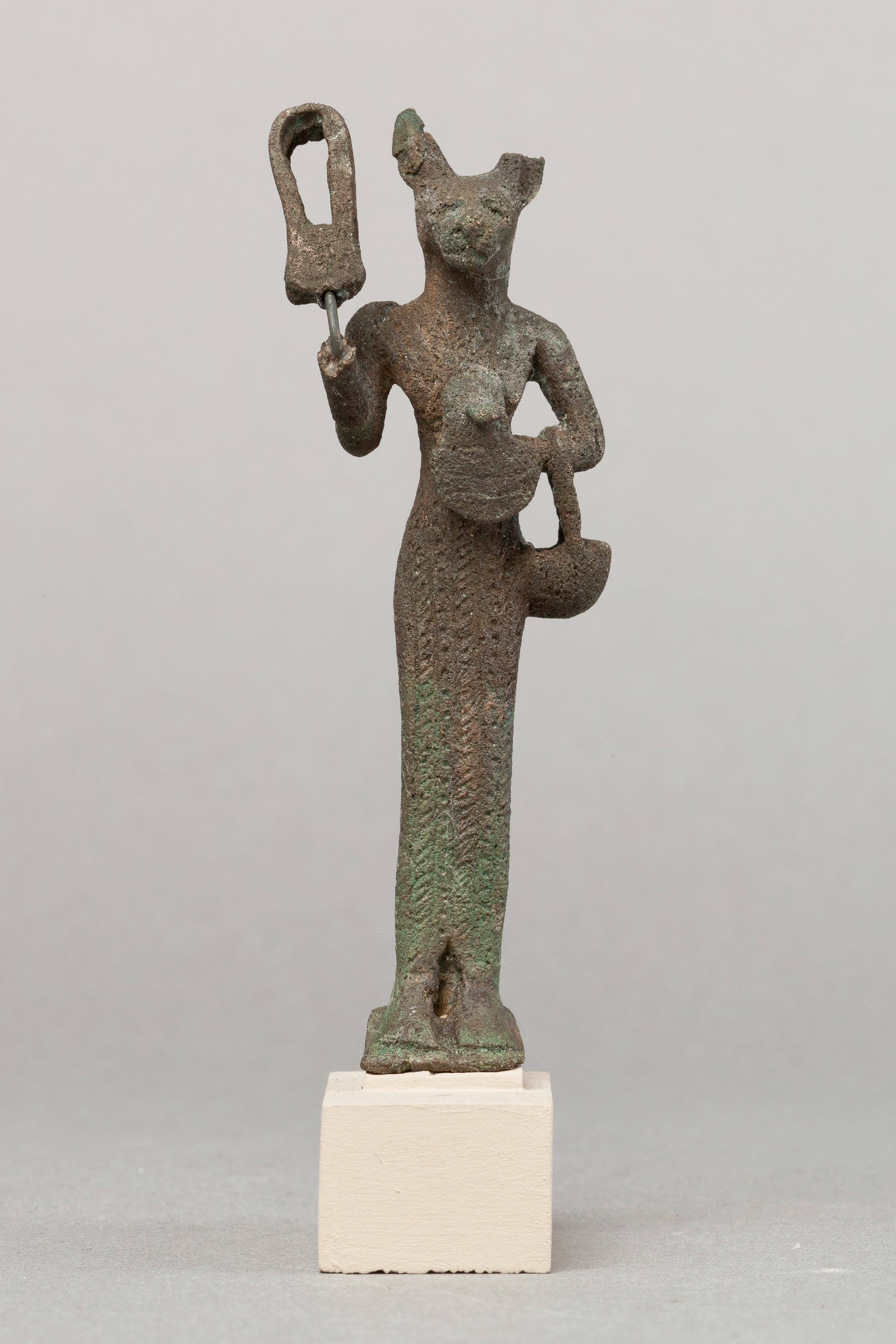 Figurine, Bastet, sistrum